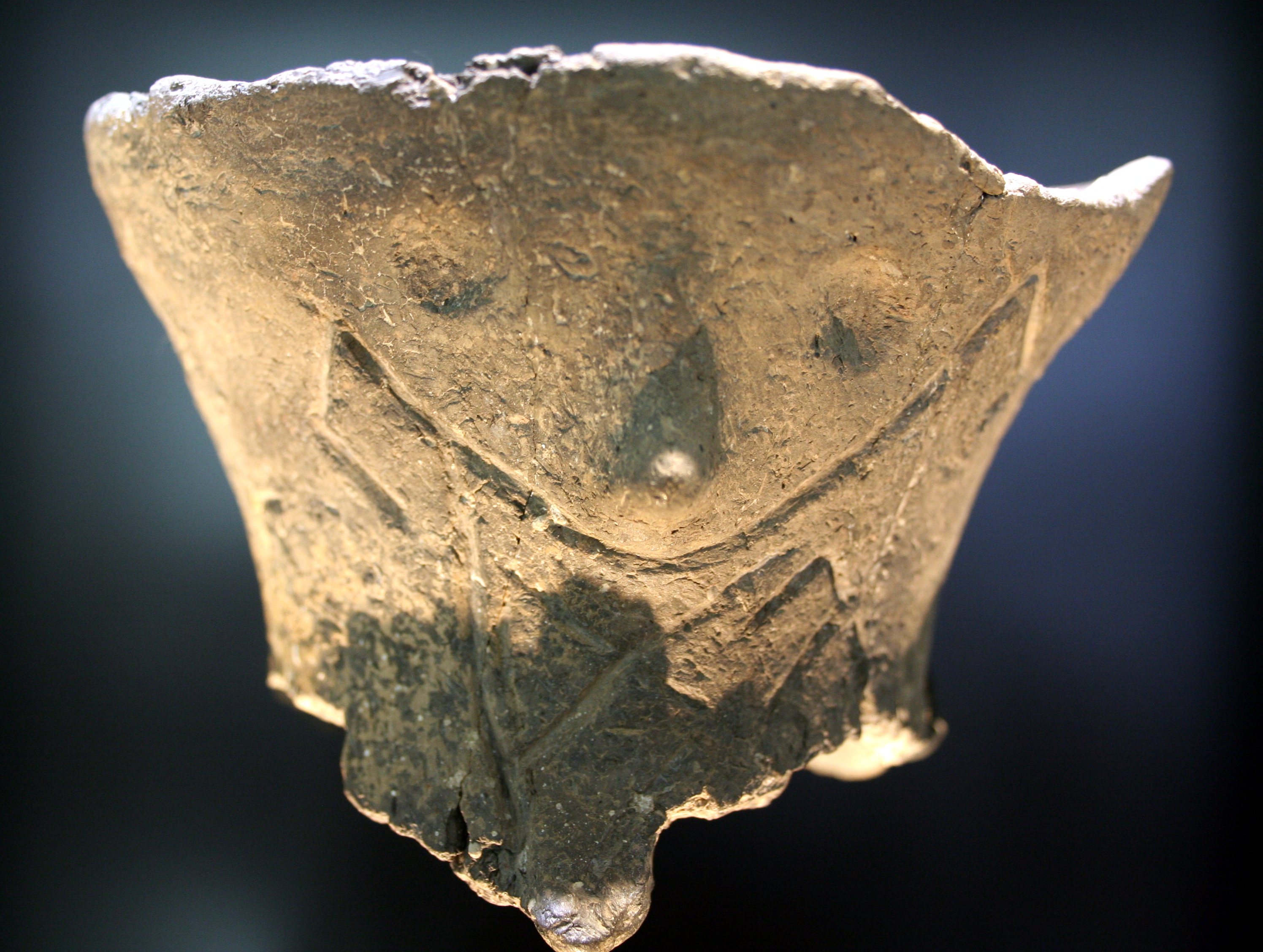 Depiction of a face on a storage bottle, Seelberg, Stuttgart-Bad Cannstatt, 5500-5100 BC; State museum Württemberg, Stuttgart